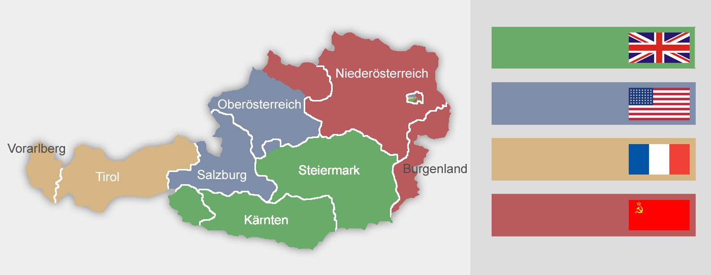 Occupied zones in Austria, 1945–1955.